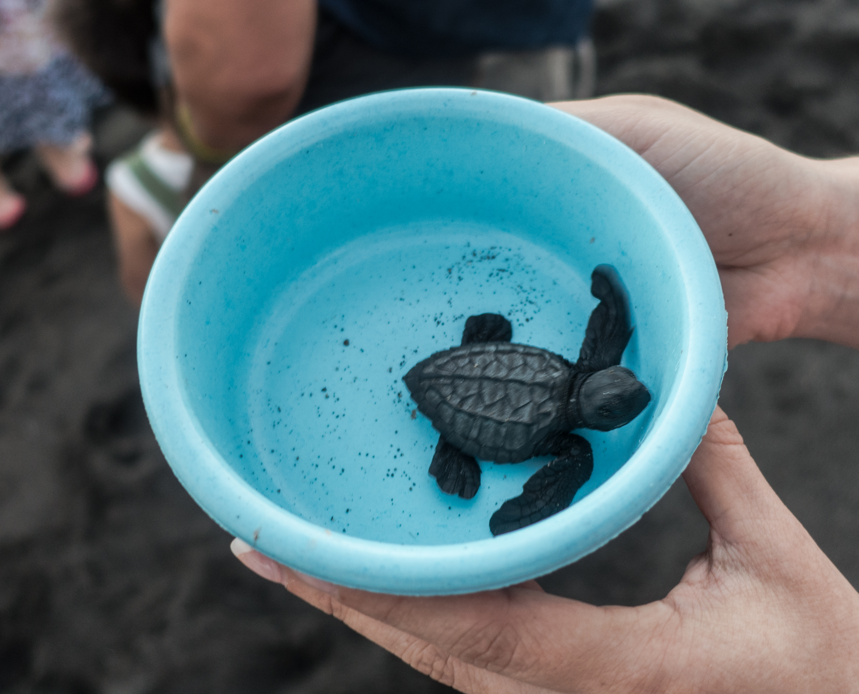 Turtles being released on the beach at Monterrico, Guatemala.